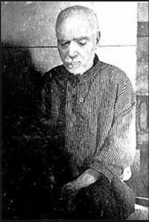 B&W photography of Jerome of Sandy Cove